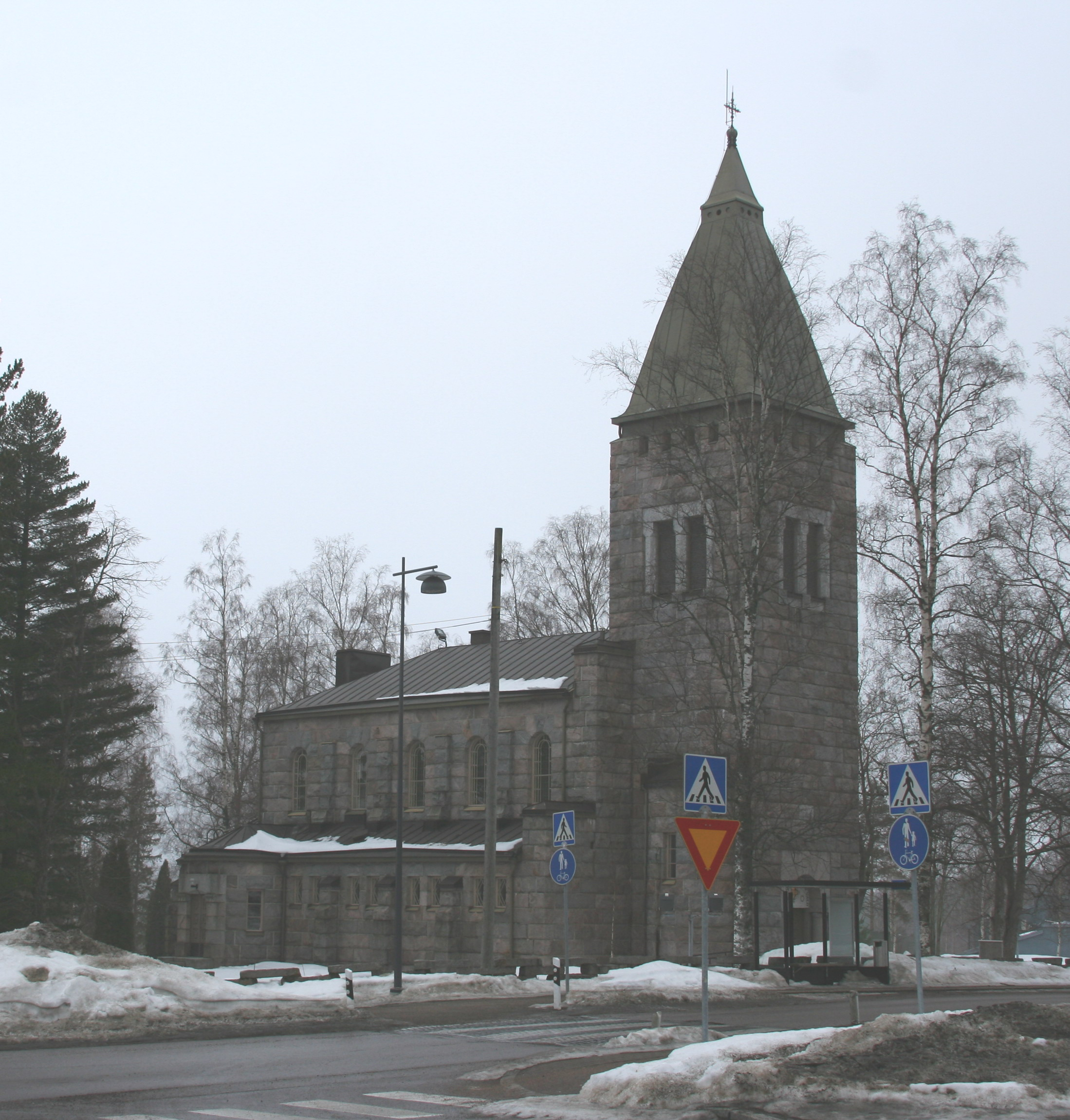 Pornainen Church, Pornainen, Finland. Architect Ilmari Launis, completed 1924. Photo taken from the parking lot.